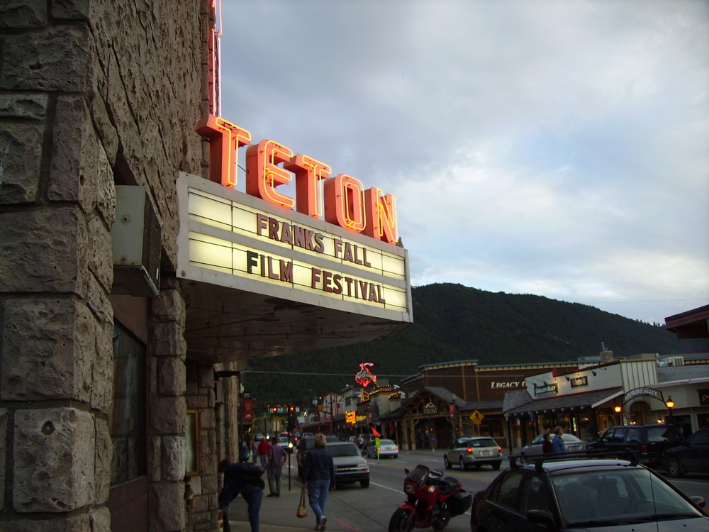 Teton Theater in Jackson, Wyoming. Marquee features the 2005 Frank’s Fall Film Festival “ Franks Fall Film Festival ” Jackson, Wyoming - Teton Theater